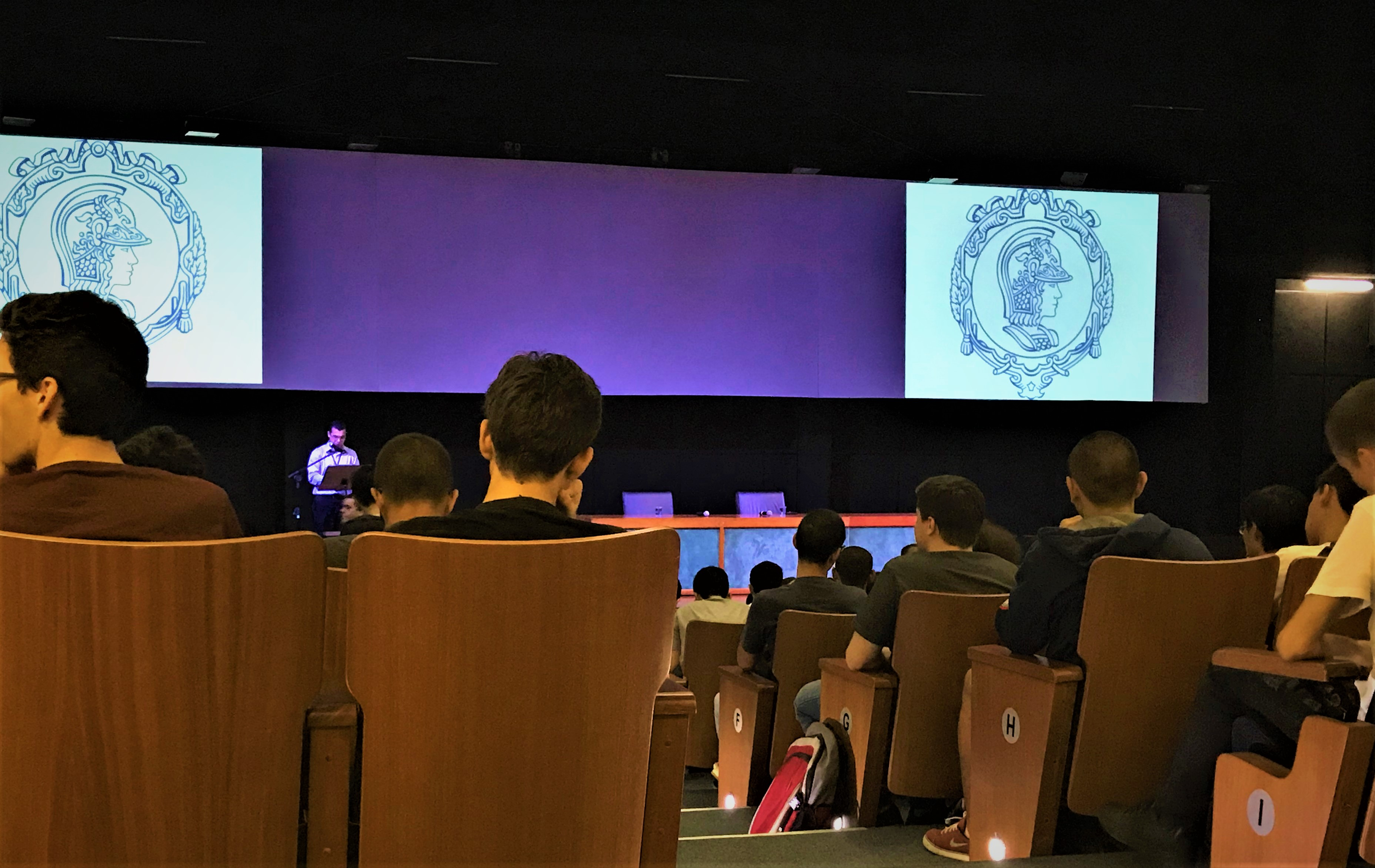 Admission ceremony of the new engineering undergraduate students, in Polytechnic School of the University of São Paulo